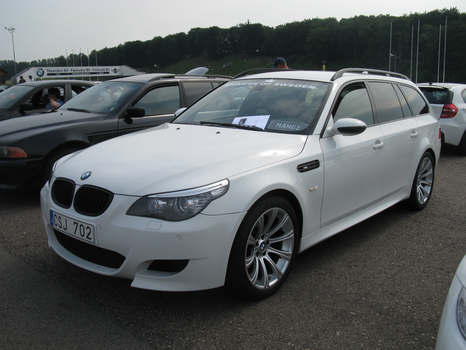 BMW M5 Touring E61